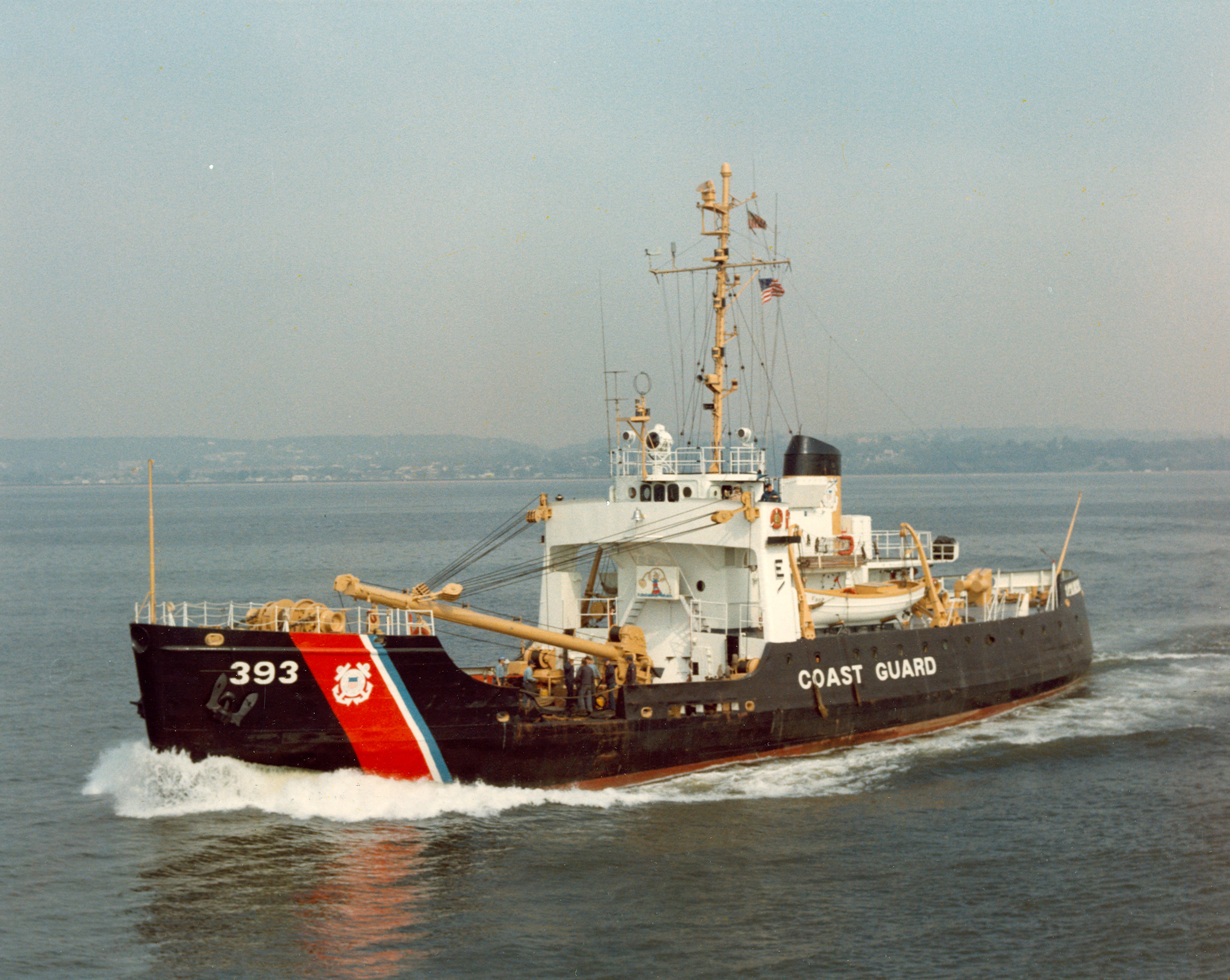 USCGC Firebush on 15 May 1969